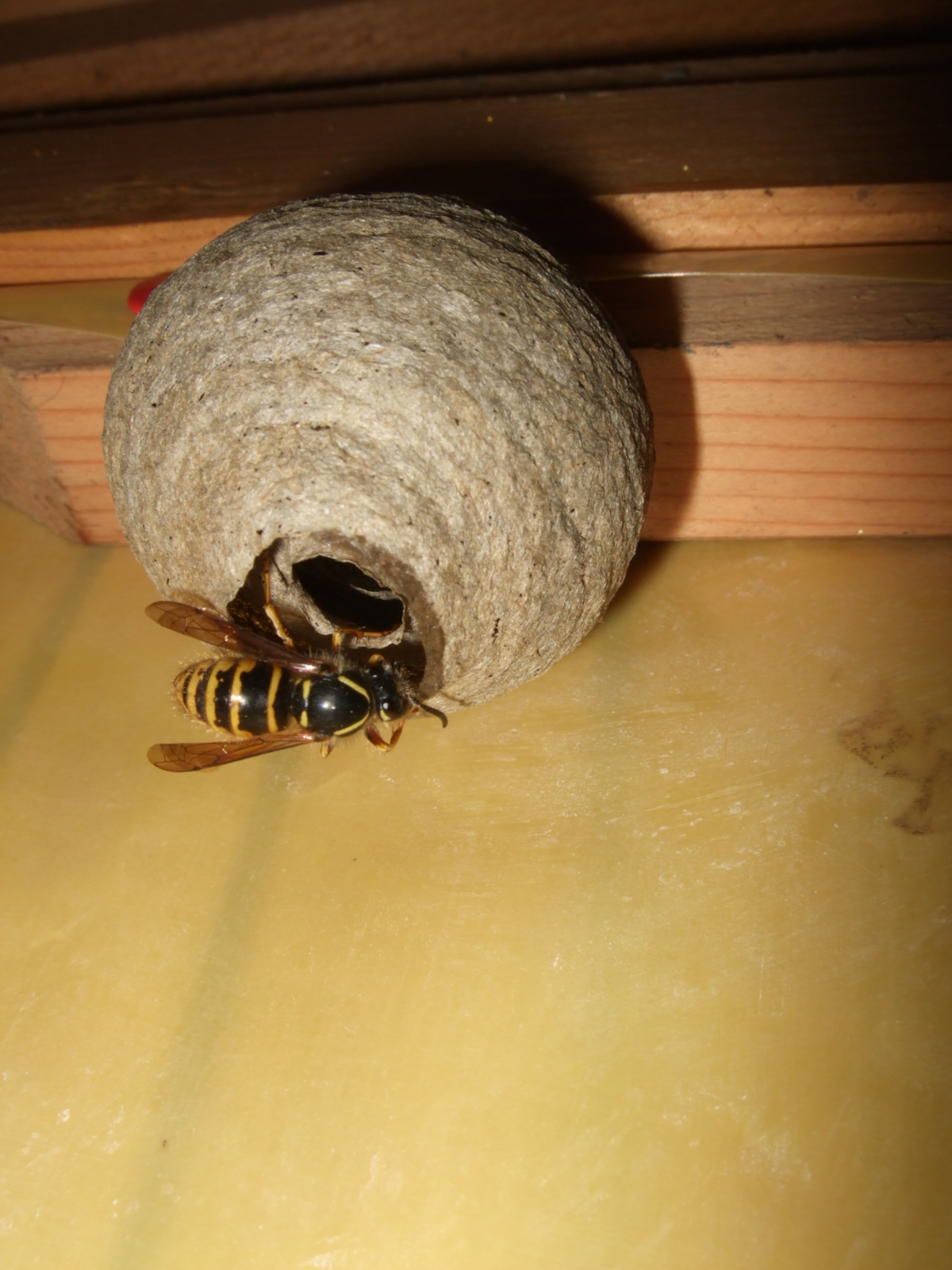 Dolichovespula saxonia queen in April on her 1 week old nest